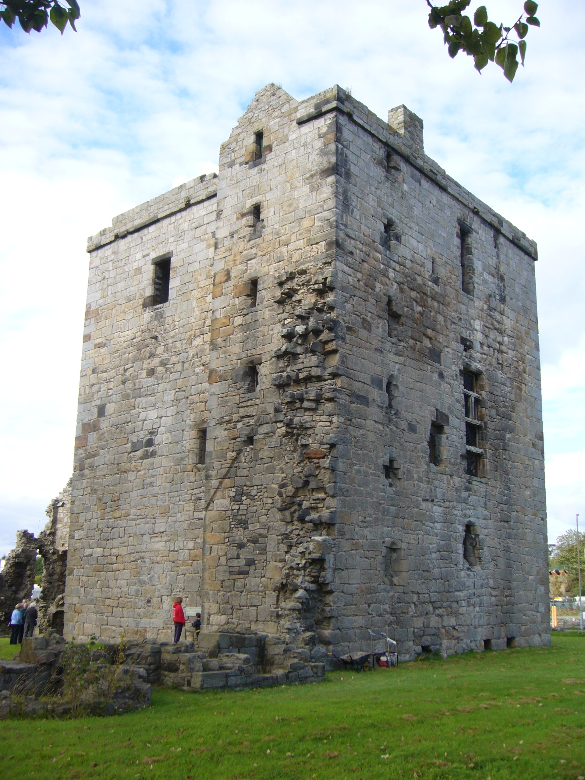 Rosyth Castle, Fife